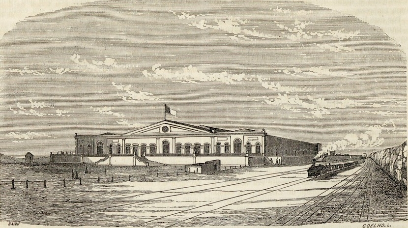 First Barreiro Railway Station, in Portugal, that functioned between 1861 and 1884. This image was originally published on the Archivo Pittoresco n.º 15, 6th year, of 1863, and scanned by the Hemeroteca Municipal de Lisboa.